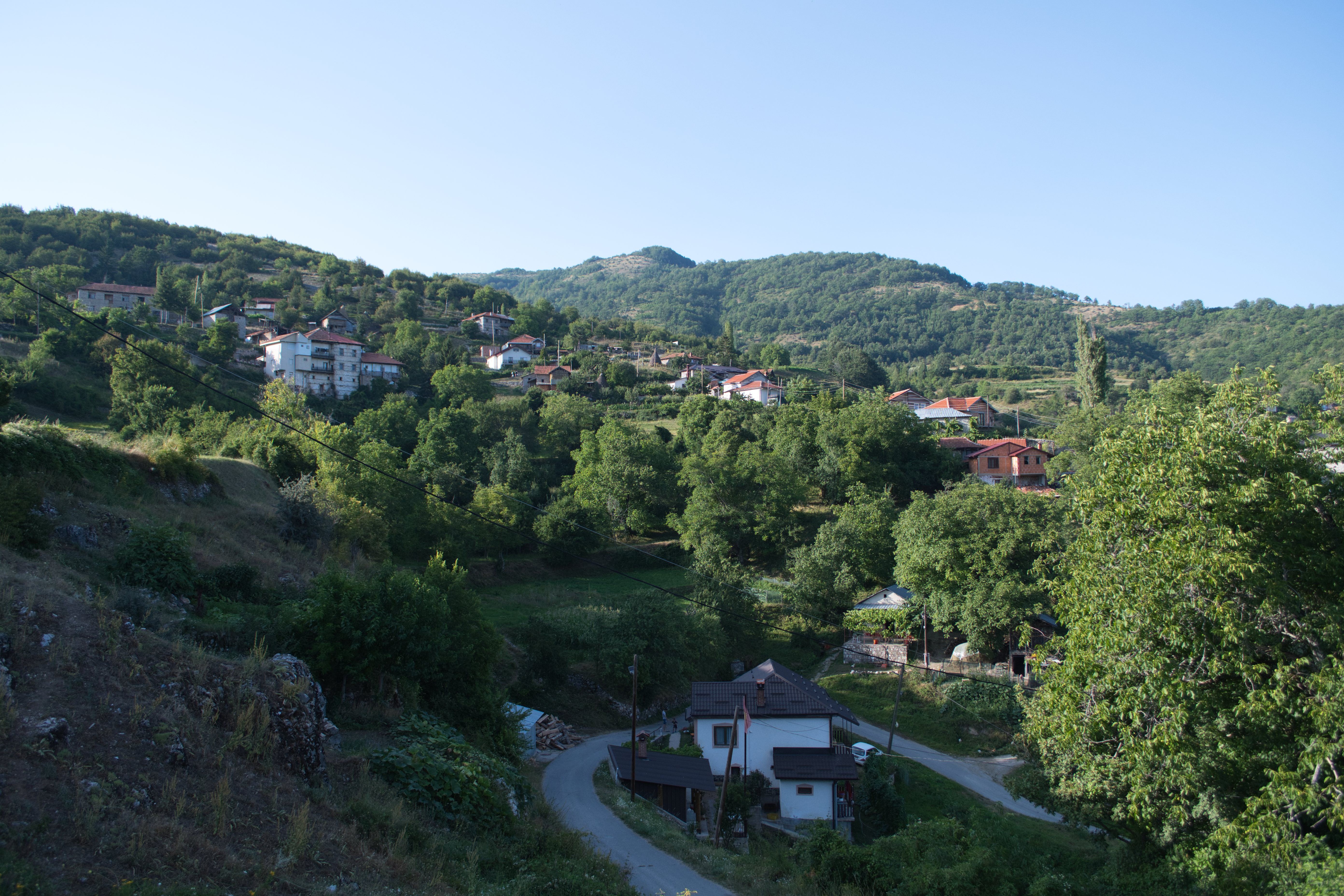 Panoramic view of the village of Jablanica